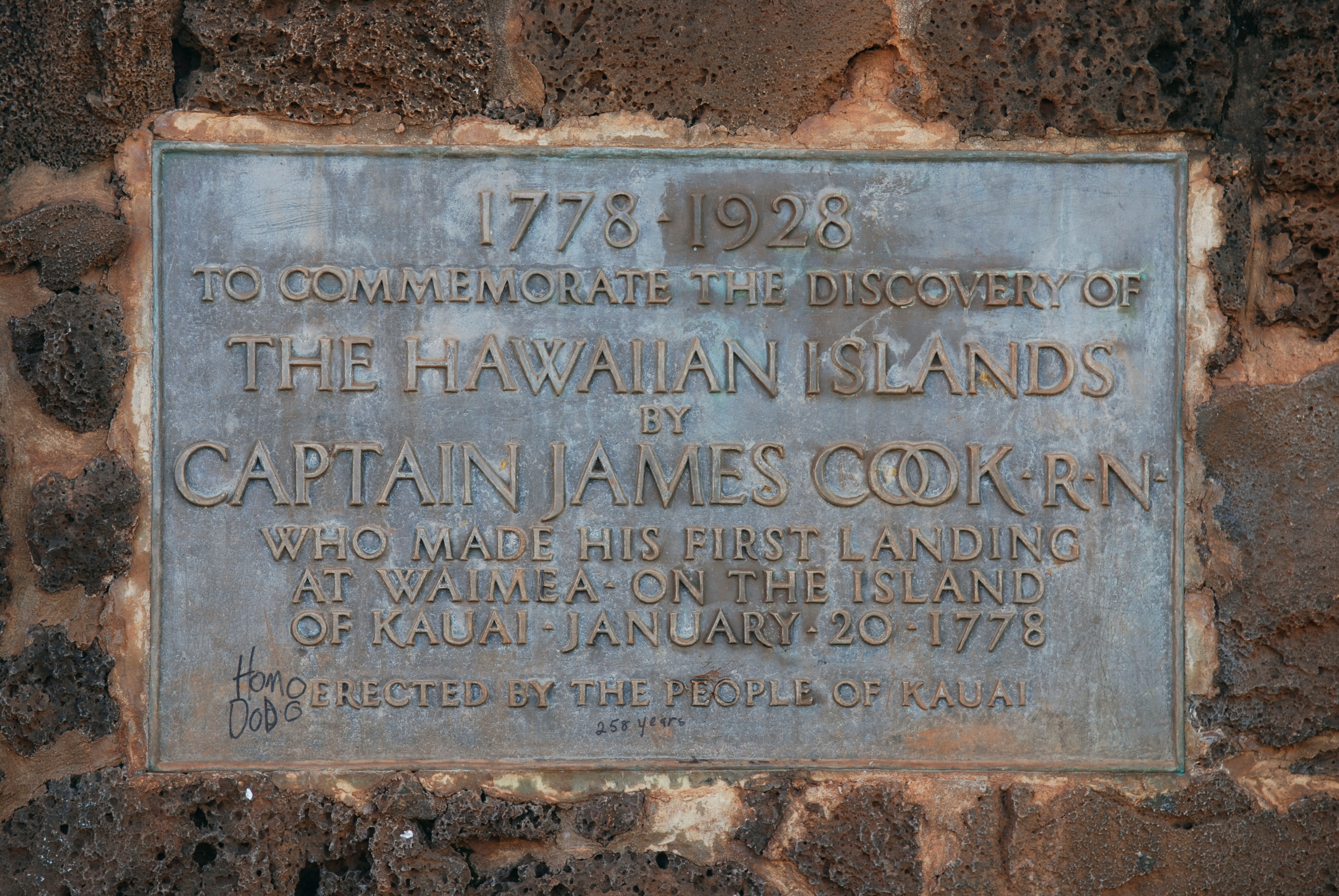 The inscription on another monument near the main Captain Cook monument in Waimea.